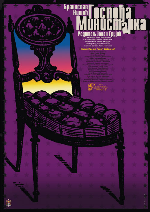 Performance poster, Knjazevsko-srpski teatar, City of Kragujevac, Serbia